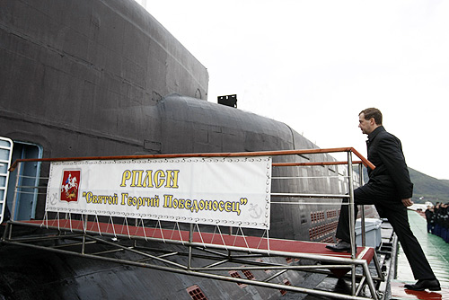 VILYUCHINSK, KAMCHATKA. On the strategic nuclear cruiser submarine St George the Victorious.